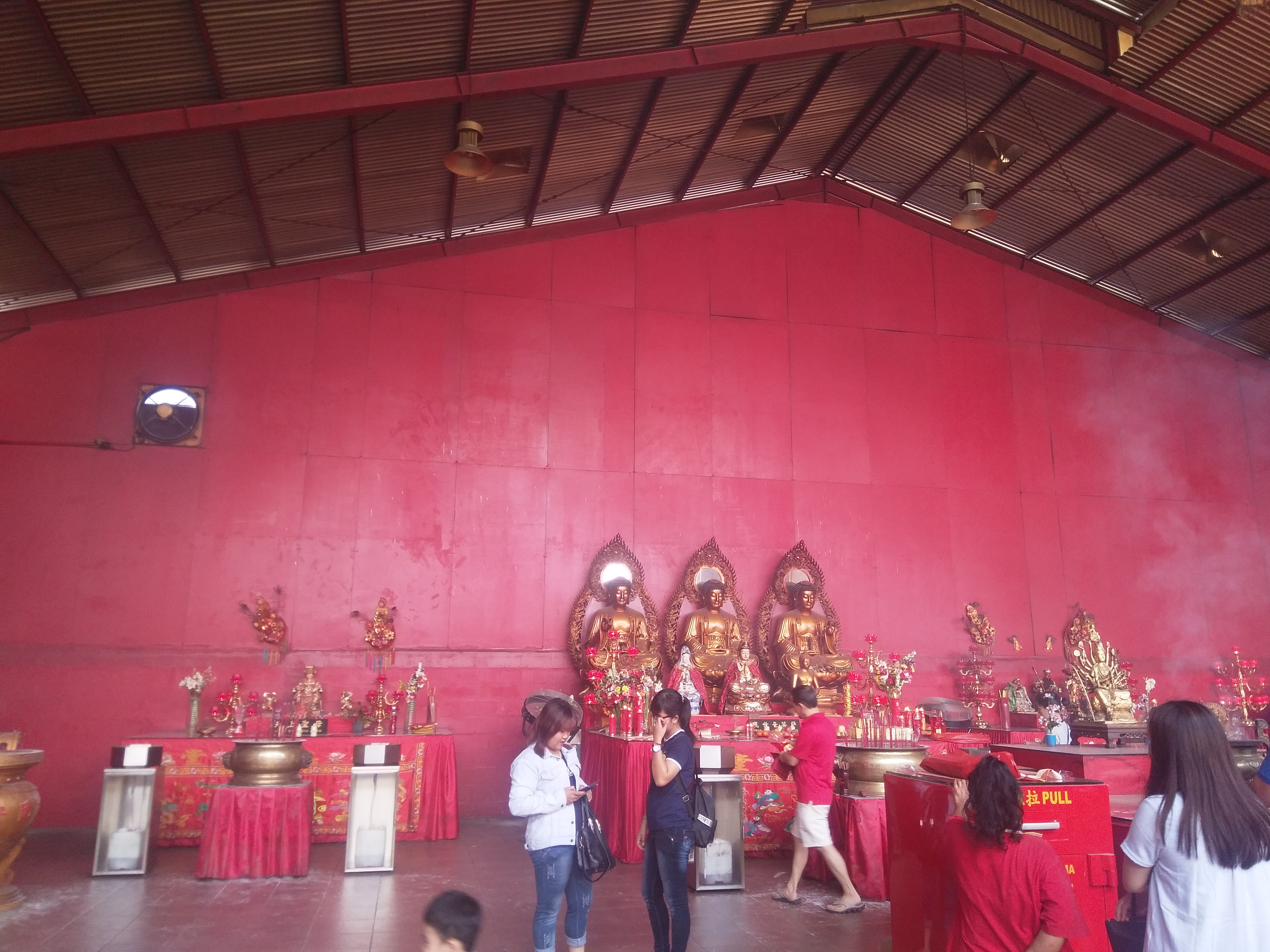 Jindeyuan Altar, Jakarta